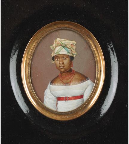 Painting medium: watercolor on ivory, gift of Miss Georgina Schuyler, Courtesy of the New York State Historical Society